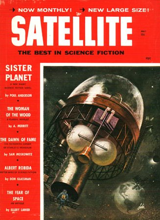 Cover, Satellite Science Fiction, May 1959